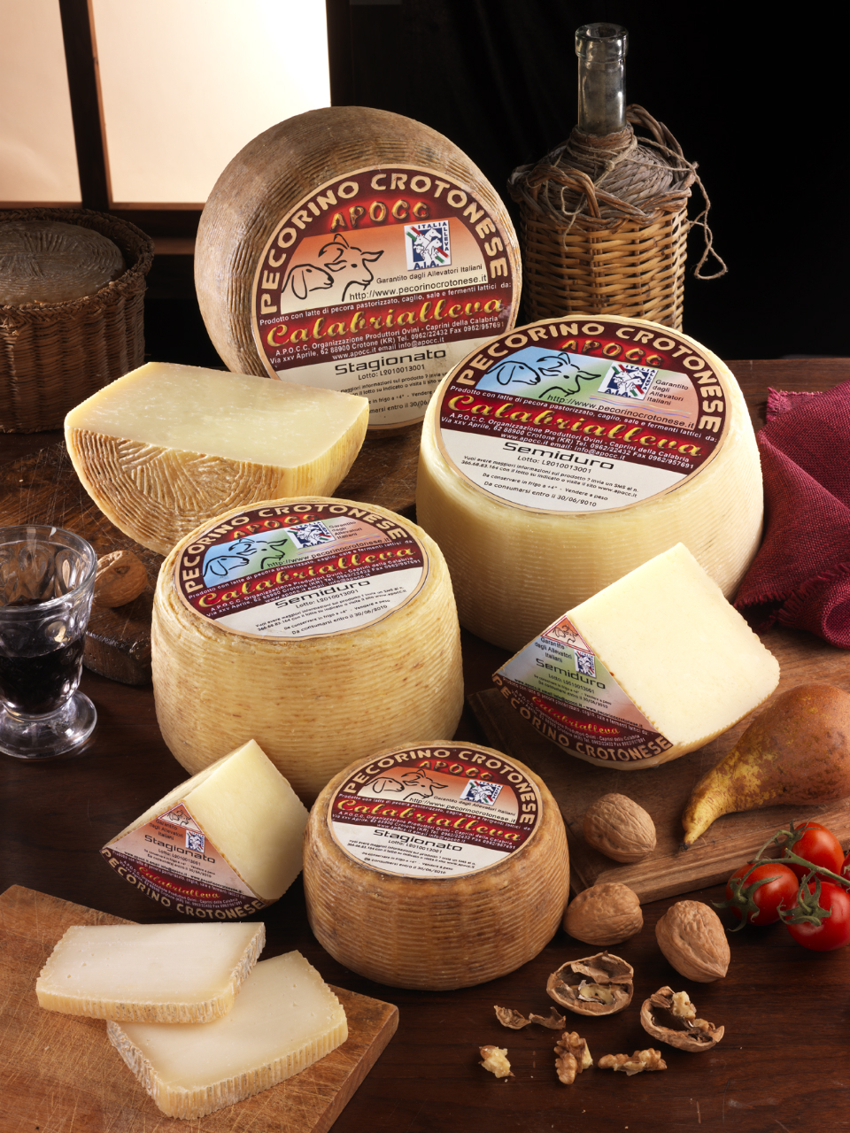 Pecorino Crotonese D.O.P. A.P.O.C.C.